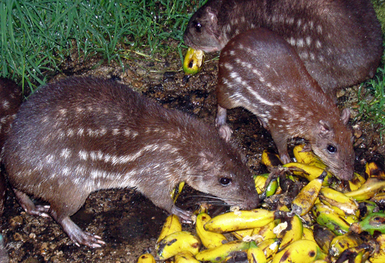 Cuniculus paca, common name Tepezcuintle, mammal of the rodent family is native to the rainforest of Costa Rica, however it can also be found in mountain forests, introduced by the locals.